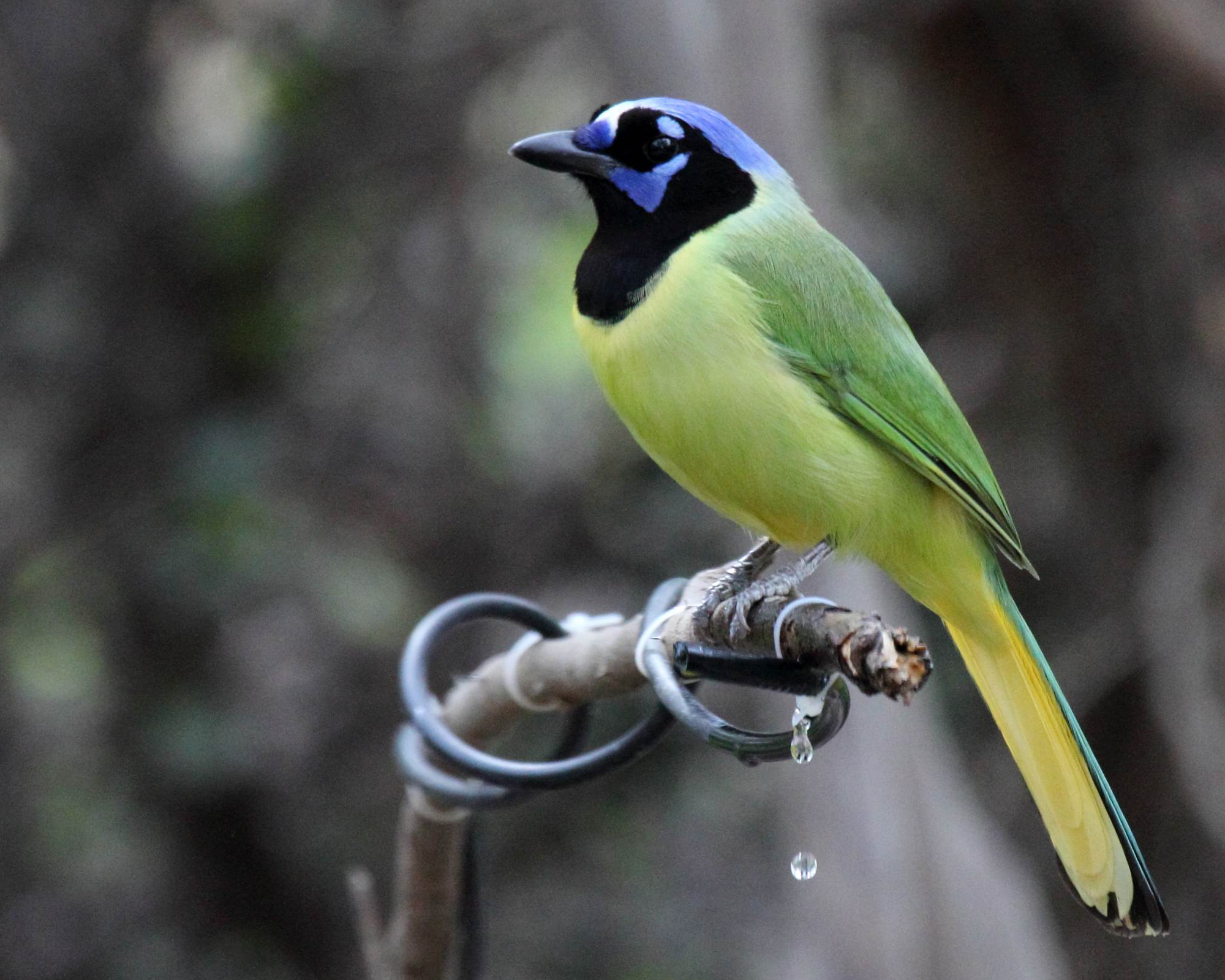 Green Jay (Cyanocorax luxosus)